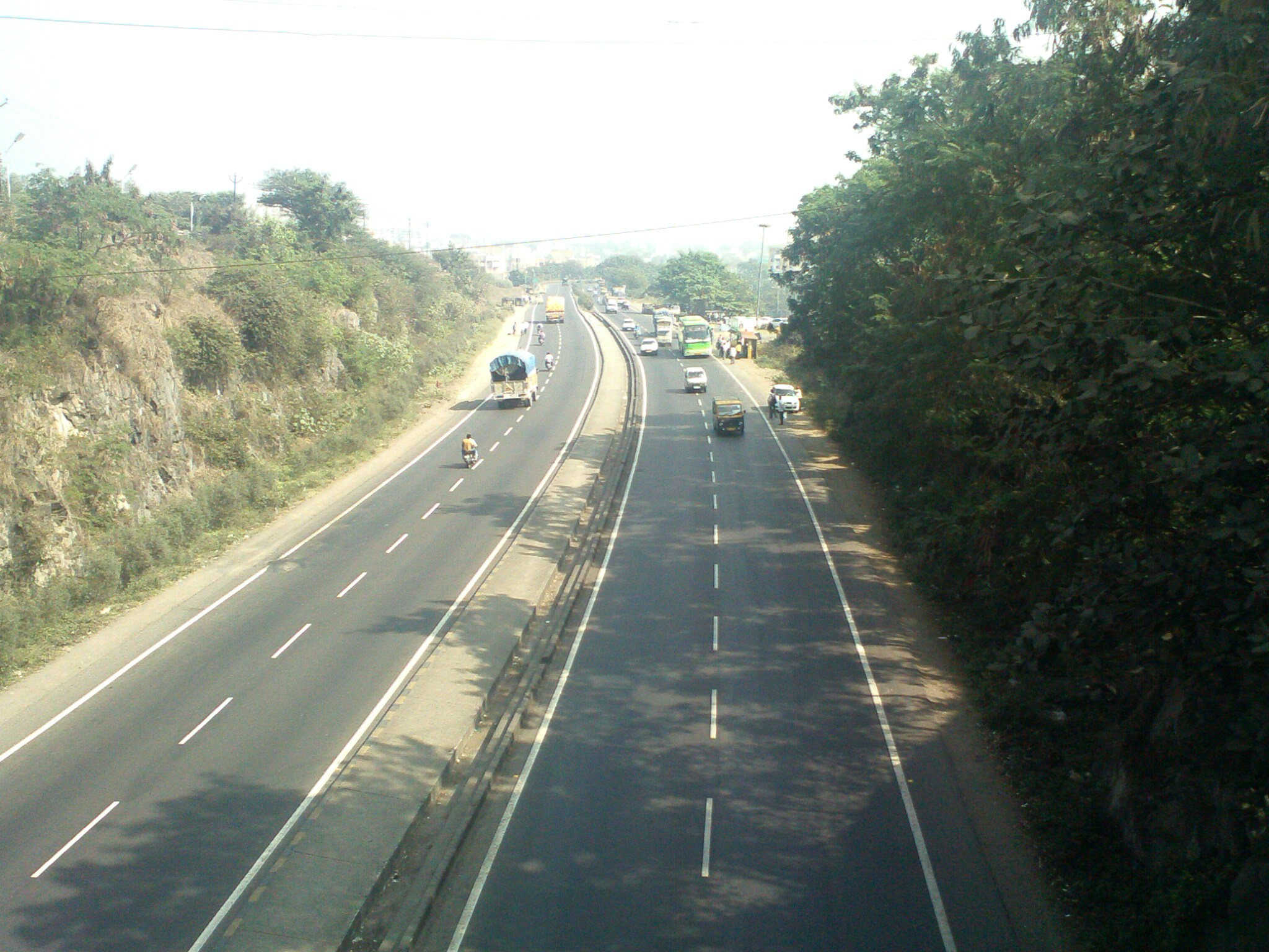 The Katraj-Dehu Road Bypass near Chandni Chowk, Kothrud.